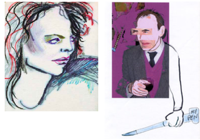 Illustrations of herself and Anthony Haden-Guest by the artist Matuschka characteristic of her personal drawings completed while she worked as a model.